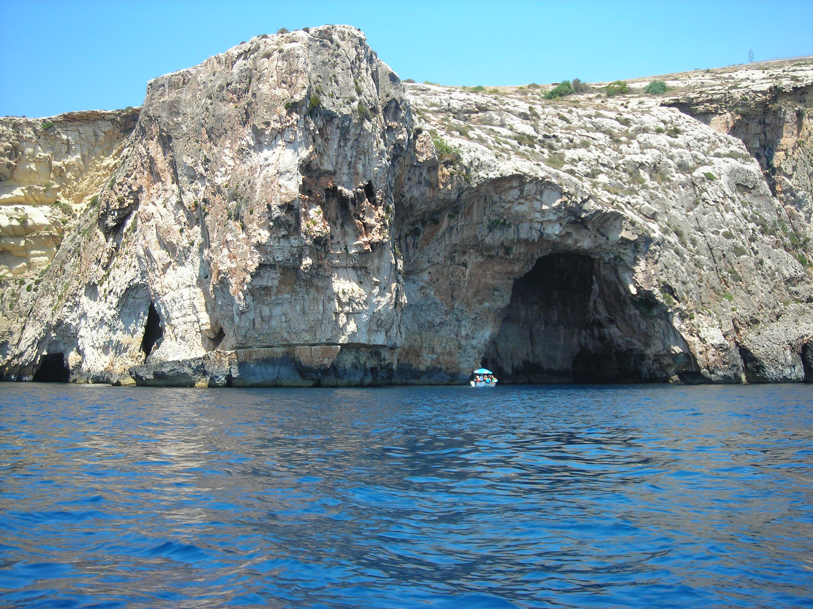 A boat about to enter the Blue Grotto in Malta